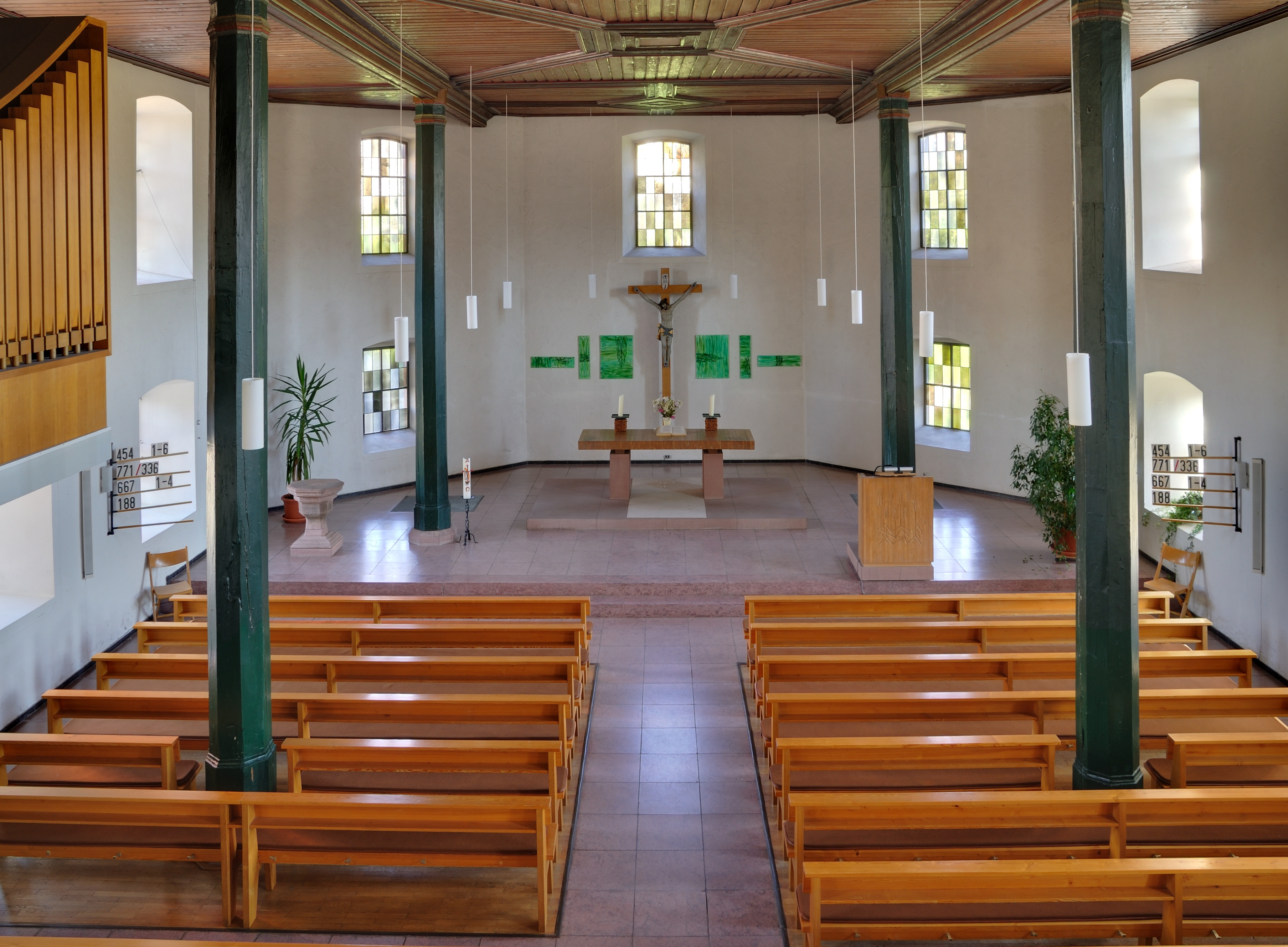 Schopfheim-Gersbach: Protestant Church